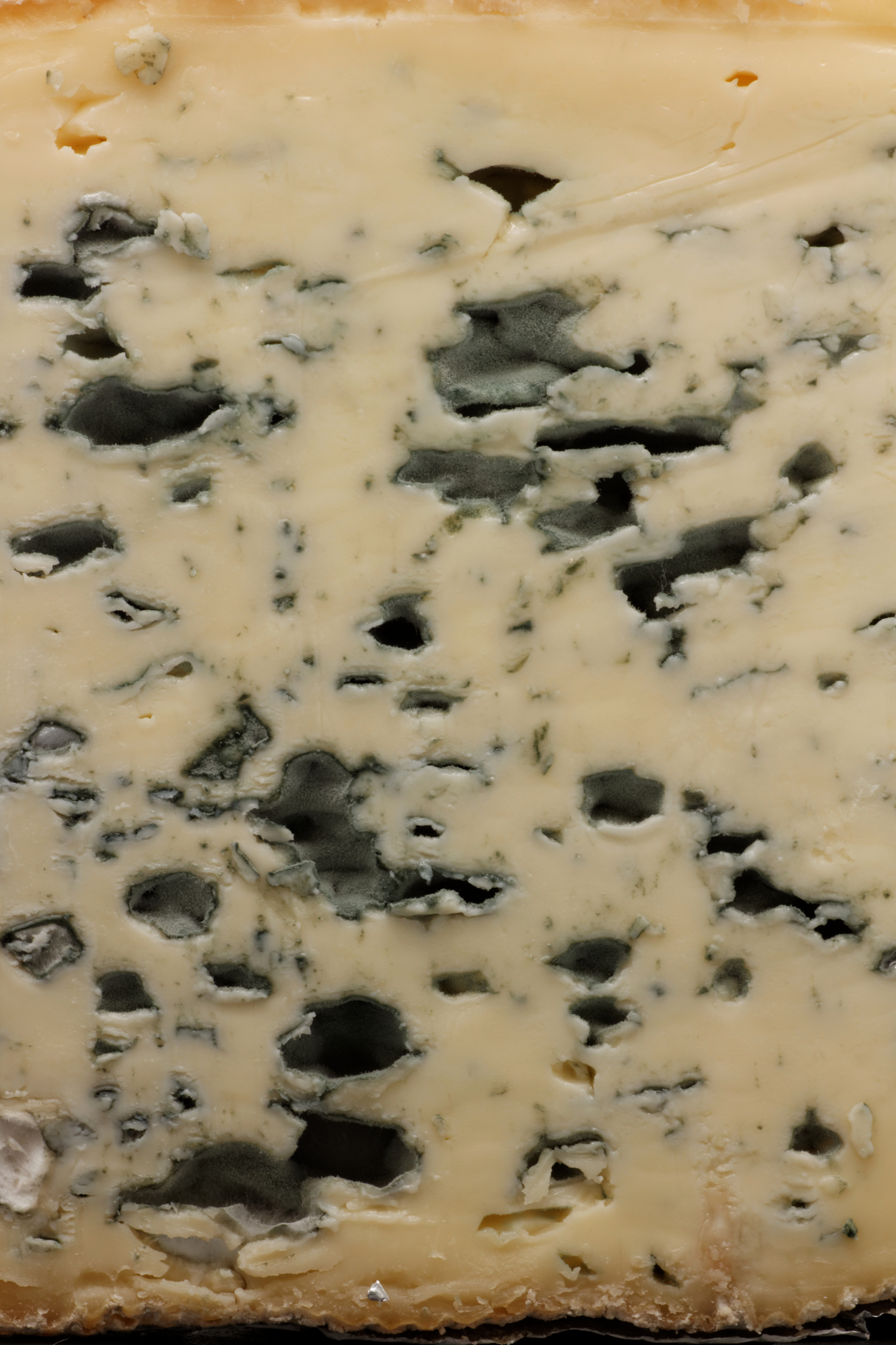 Bleu d'Auvergne